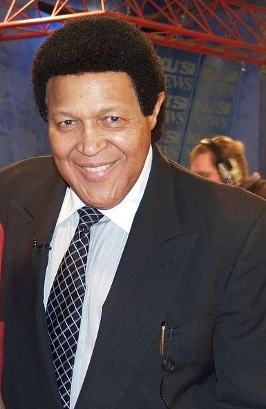 Photo of Chubby Checker when he was interviewed at KUSI-TV in San Diego. Please acknowledge "Phil Konstantin" as the creator of this photograph.